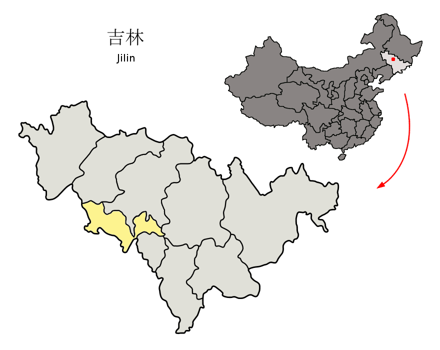 Location of Siping Prefecture (yellow) within Jilin Province of China Map drawn in november 2007 using various sources, mainly : Jilin Province administrative regions GIS data: 1:1M, County level, 1990 Jilin Counties map from